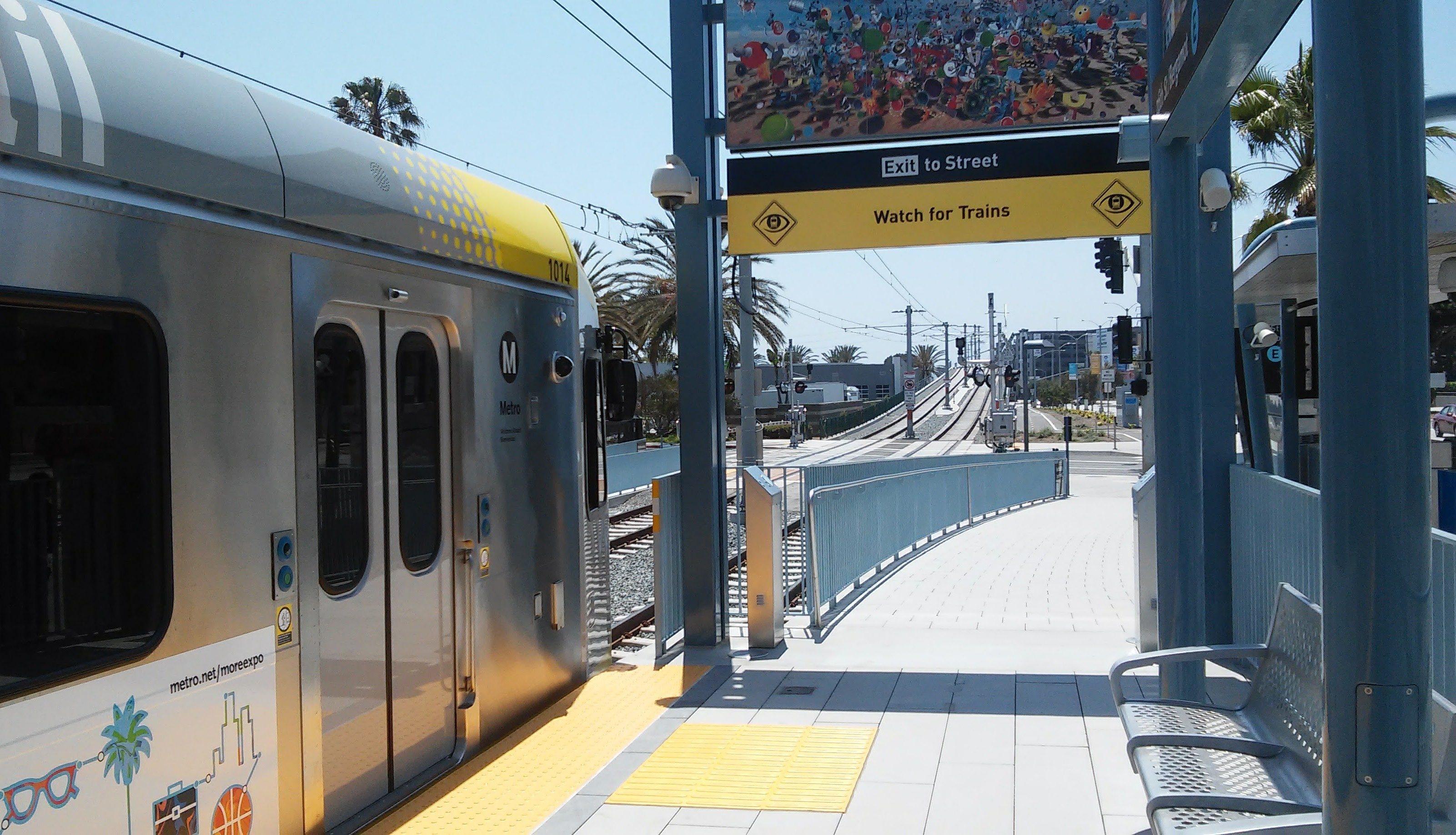 Photo I took back in 2016 of an Expo Line train bound for Santa Monica at 26th/Bergamot station